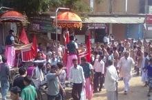 festival